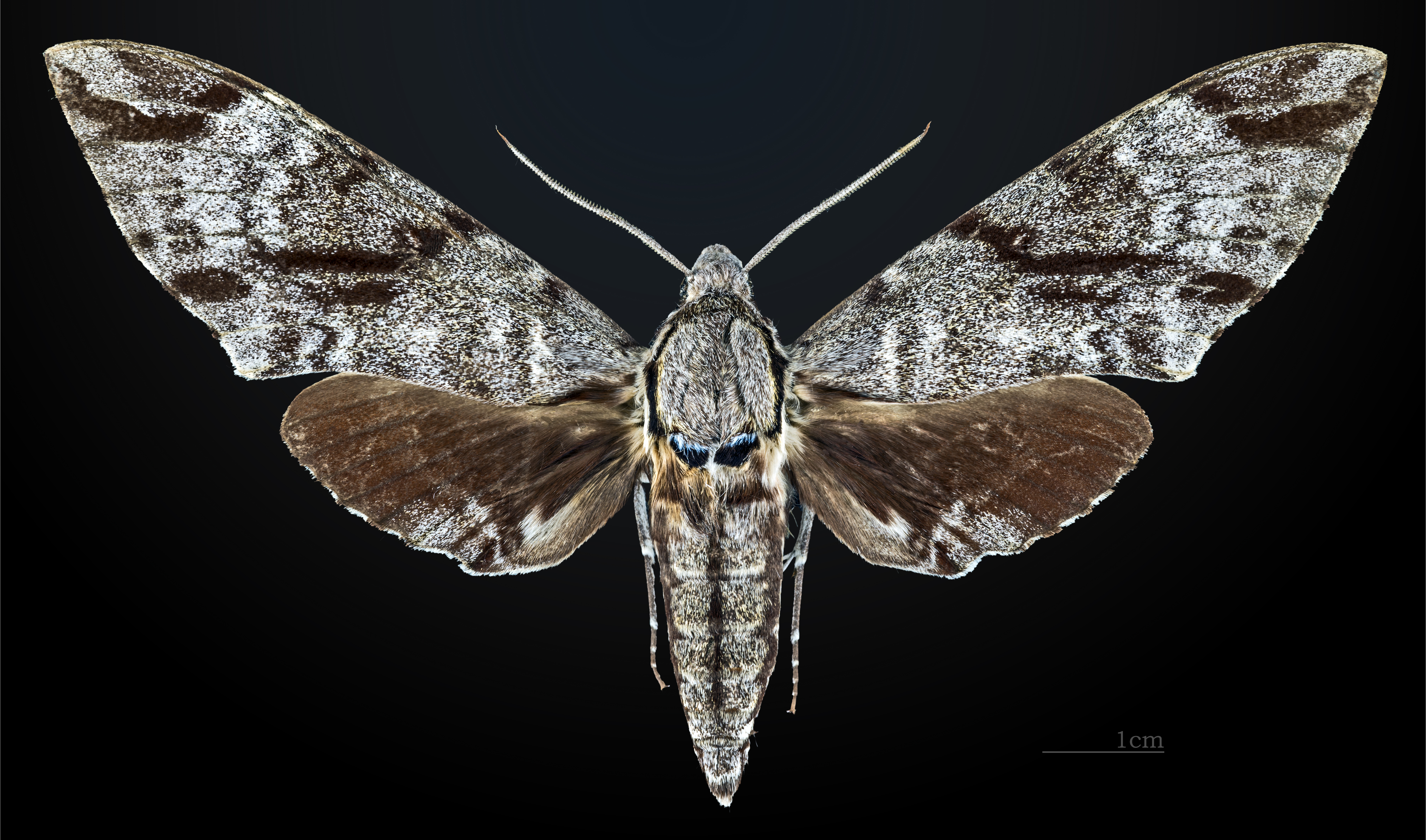 Meganoton analis gressitti - Dorsal side Collection of the Mathematician Laurent Schwartz